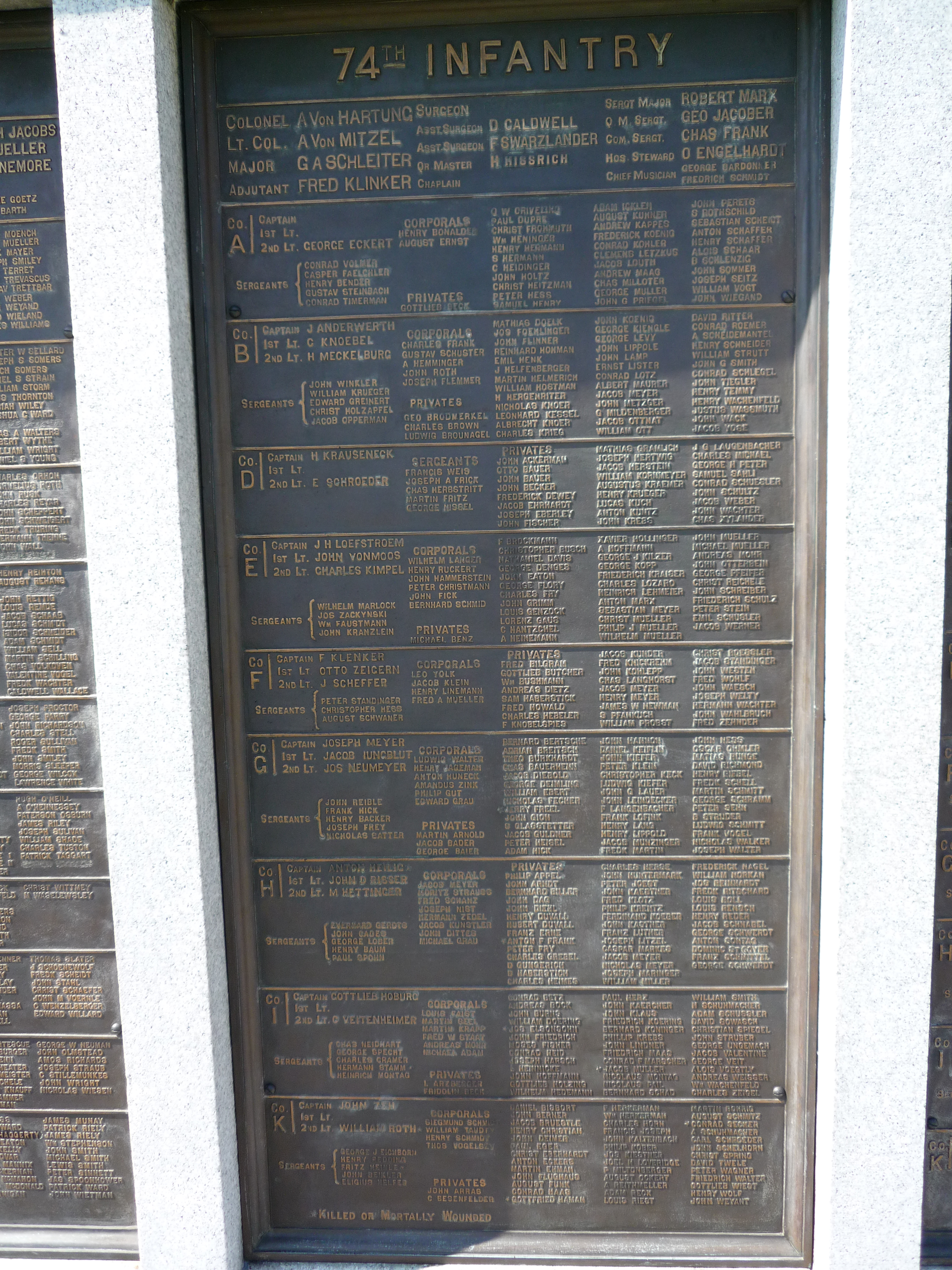 74th Pennsylvania Infantry tablet on the Pennsylvania State Monument, Gettysburg, Pennsylvania